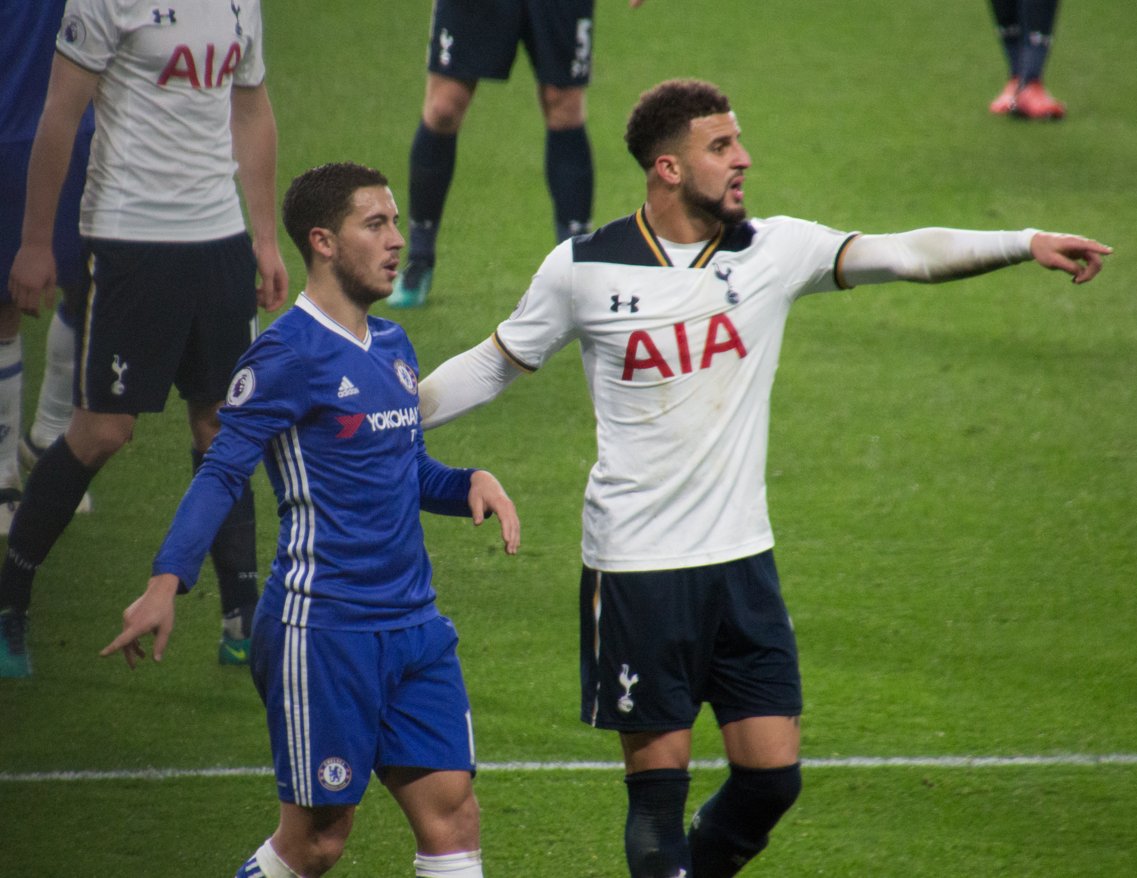 Chelsea 2 Spurs 1 - 26.11.16